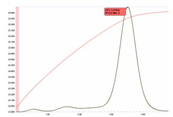 Fig. 19. Titration plot of the determination of fluoride with boric acid (author: Lab Rat1941)